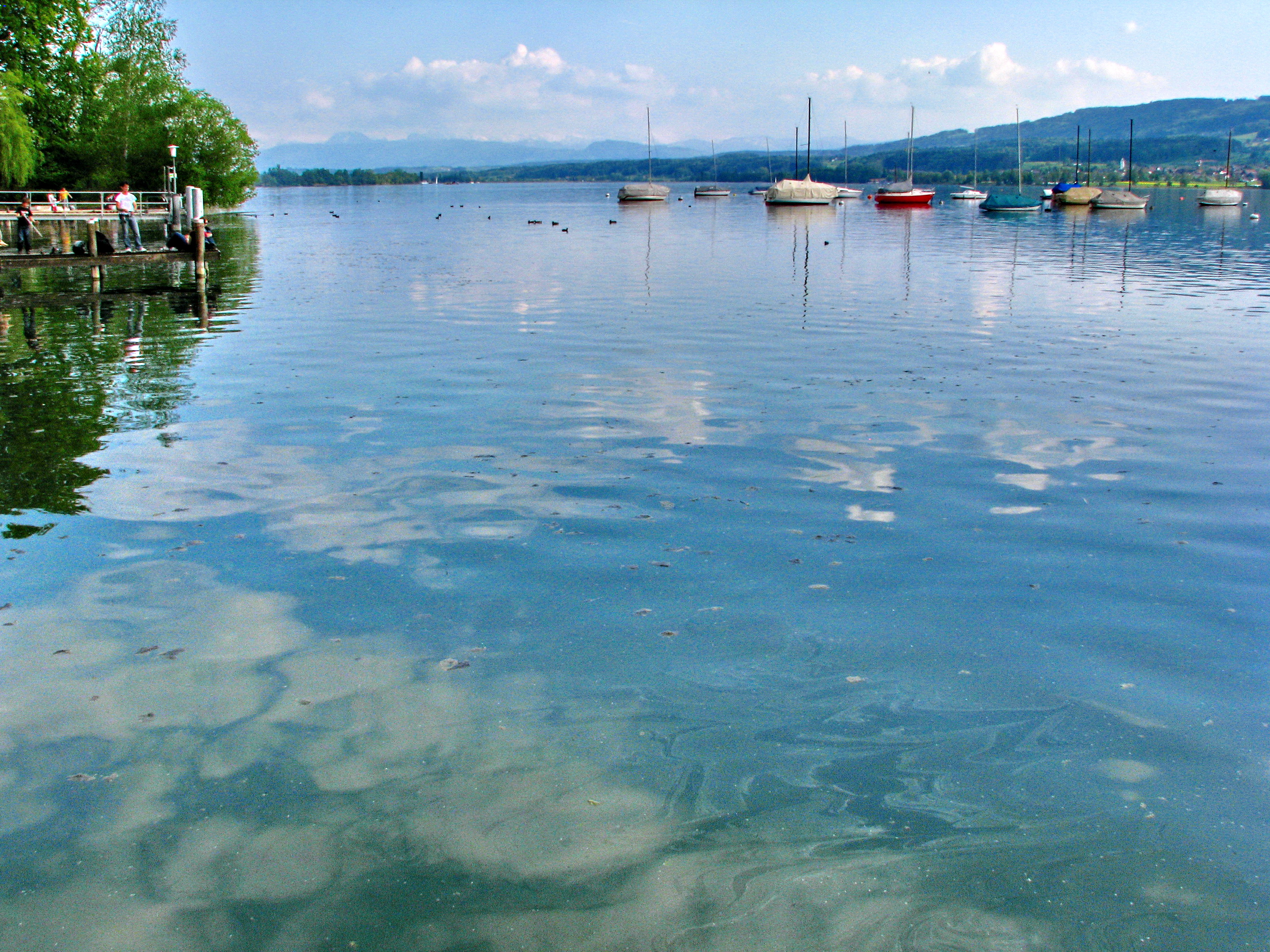 Greifensee at Category:Greifensee ZH, seen to teh south